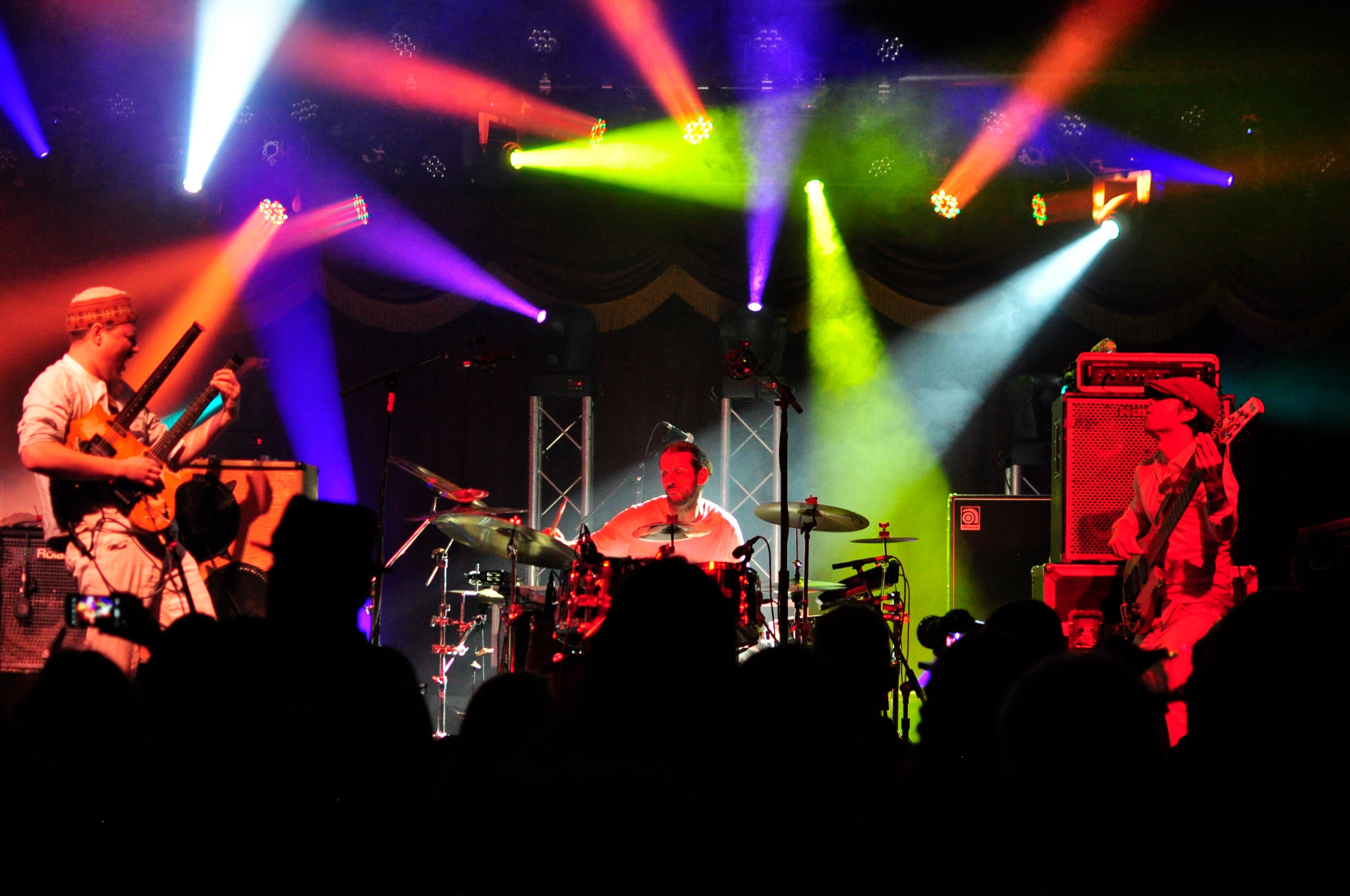 Gabriel Marin, Jeff Mann, and John Ferrara perform on stage at the Brooklyn Bowl.